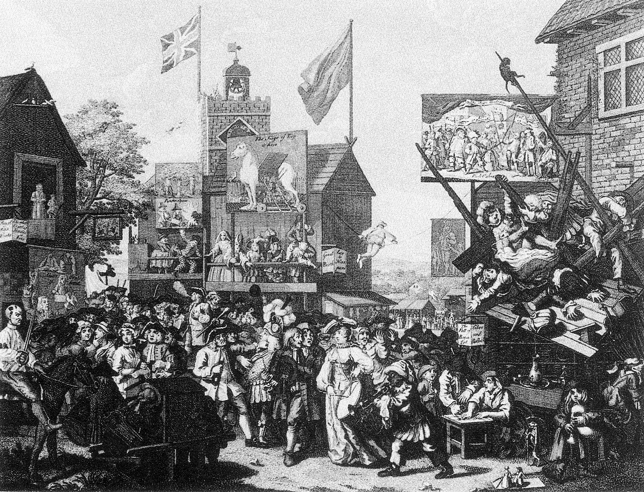 Copper-engraving in reduced shape of William Hogarth's "The Annual Faire of Southwark".